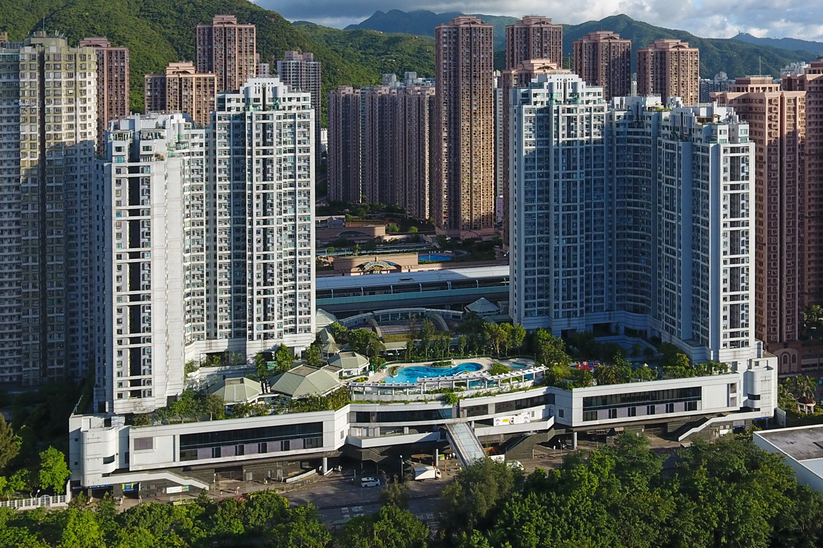 Bayshore Towers